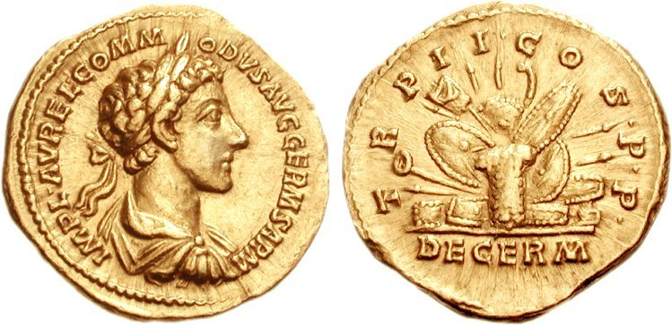 Commodus. As Caesar, AD 166-177. AV Aureus (7.21 g, 6h). Rome mint. Struck AD 177. IMP L AUREL COMMODUS AUG GERM SARM, Laureate, draped, and cuirassed bust right TR P II COS PP, DE GERM in exergue, cuirass, shields, spears, and other arms. RIC III 633 (Aurelius) var. (bust type); MIR 18, 396-12/37; Calicó 2236 (this coin illustrated).